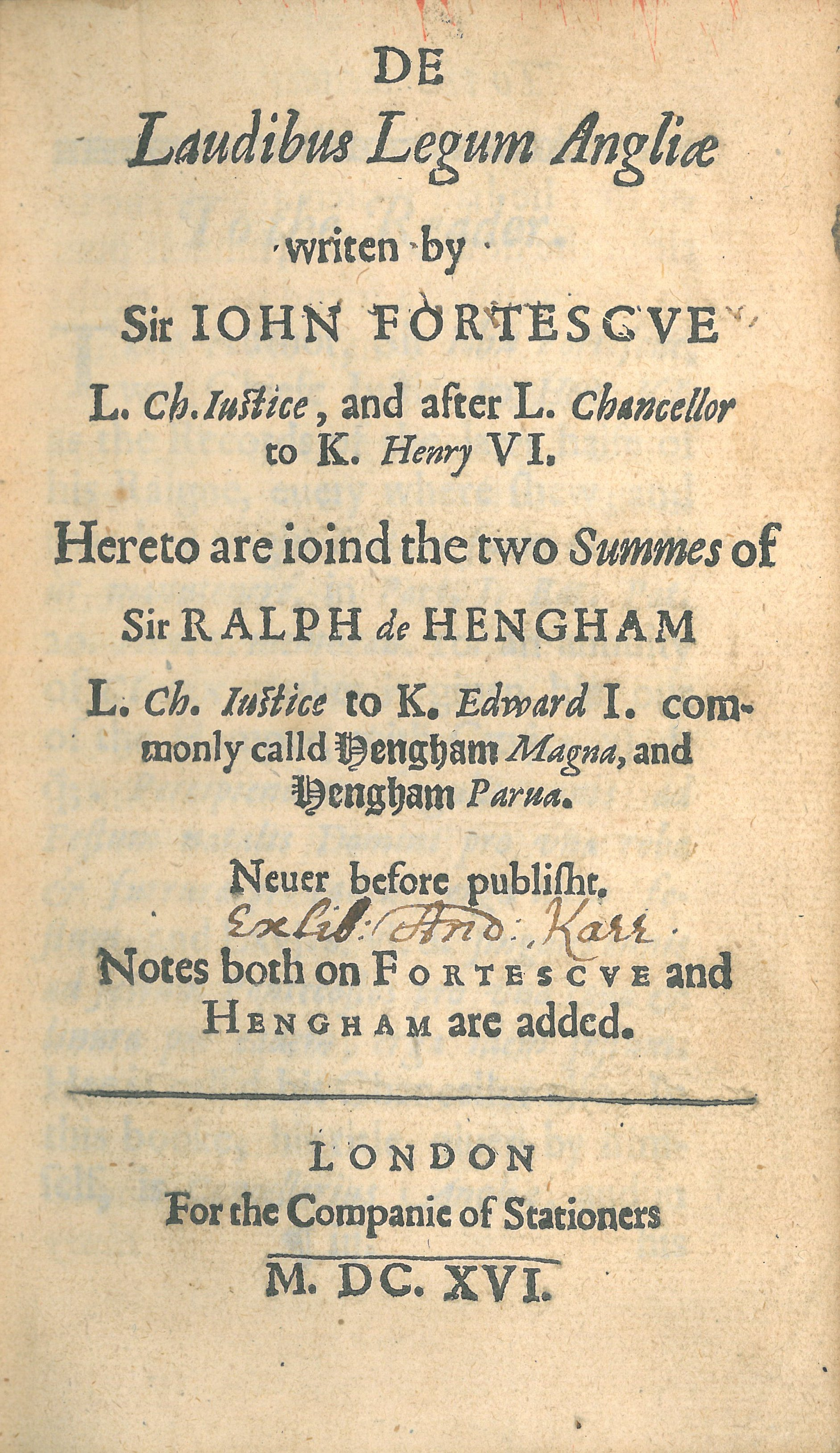 The title page of John Fortescue; Ralph de Hengham; Robert Mulcaster, transl. (1616), John Selden, editor, De Laudibus Legum Angliæ Writen by Sir Iohn Fortescue L. Ch. Iustice, and after L. Chancellor to K. Henry VI. Hereto are Ioind the Two Summes of Sir Ralph de Hengham L. Ch. Iustice to K. Edward I. Commonly Calld Hengham Magna, and Hengham Parua. Neuer before Publisht. Notes both on Fortescue and Hengham are Added, 1st edition, London: [Printed by Adam Islip?] for the Companie of Stationers, OCLC 766455476.